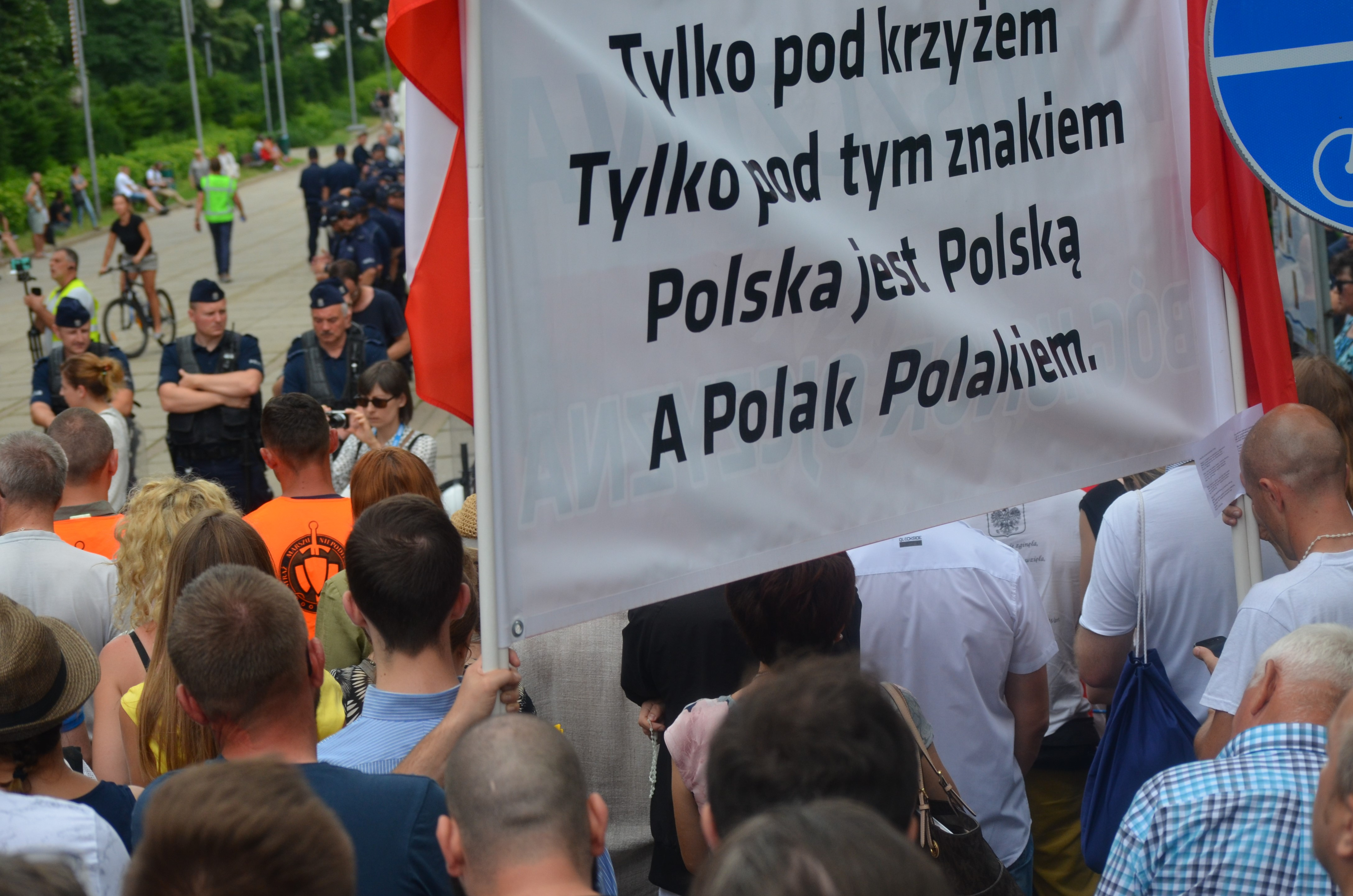 Marsz Niepodległości order service